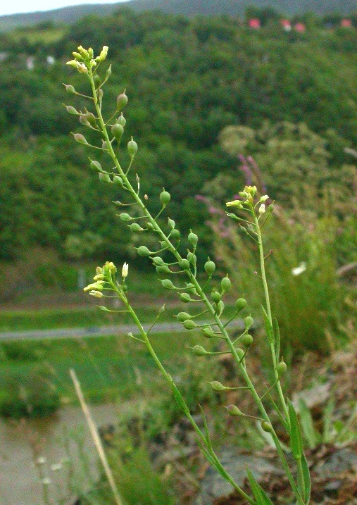 Flowering Neslia paniculata, Kalvárie hill, České Středohoří, Czech Republic